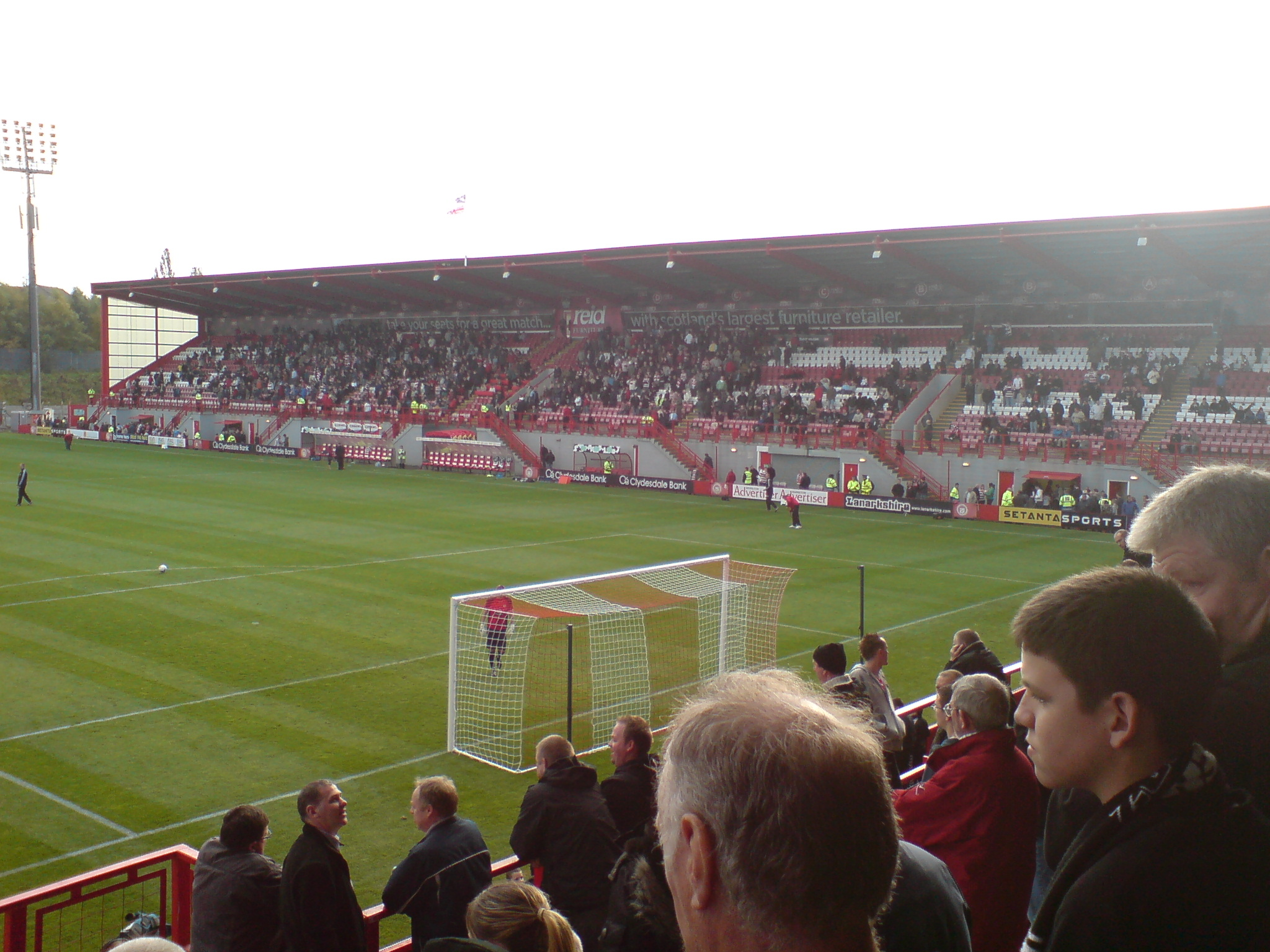 View from North stand, looking towards the Main Stand